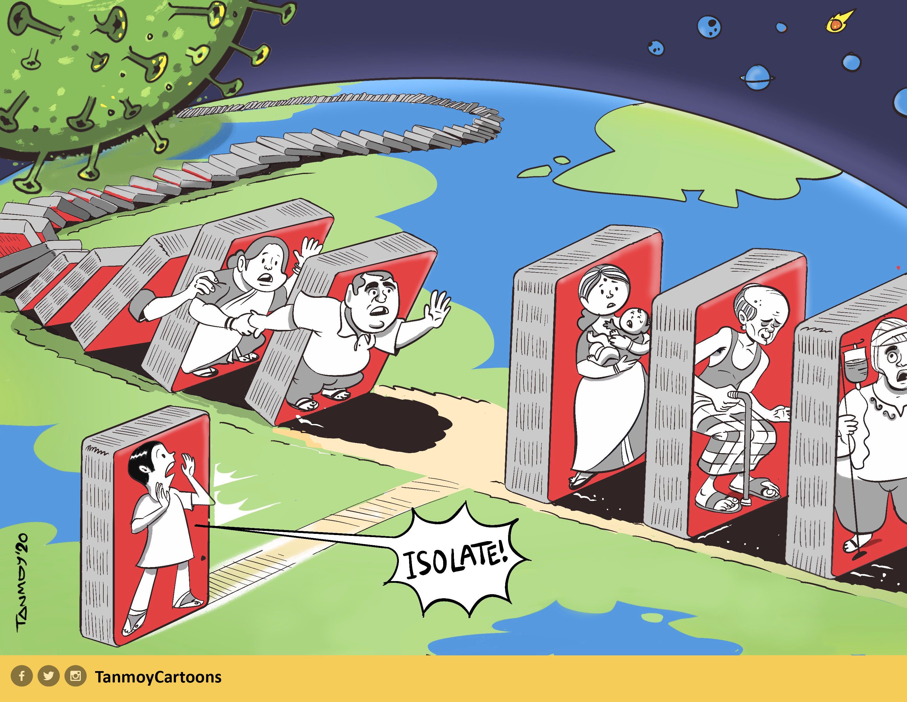 Cartoon by Syed Rashad Imam Tanmoy Bangladesh